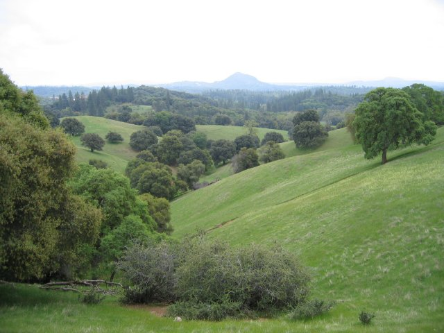 Foothills of Amador County, CA Photo taken April 7, 2007